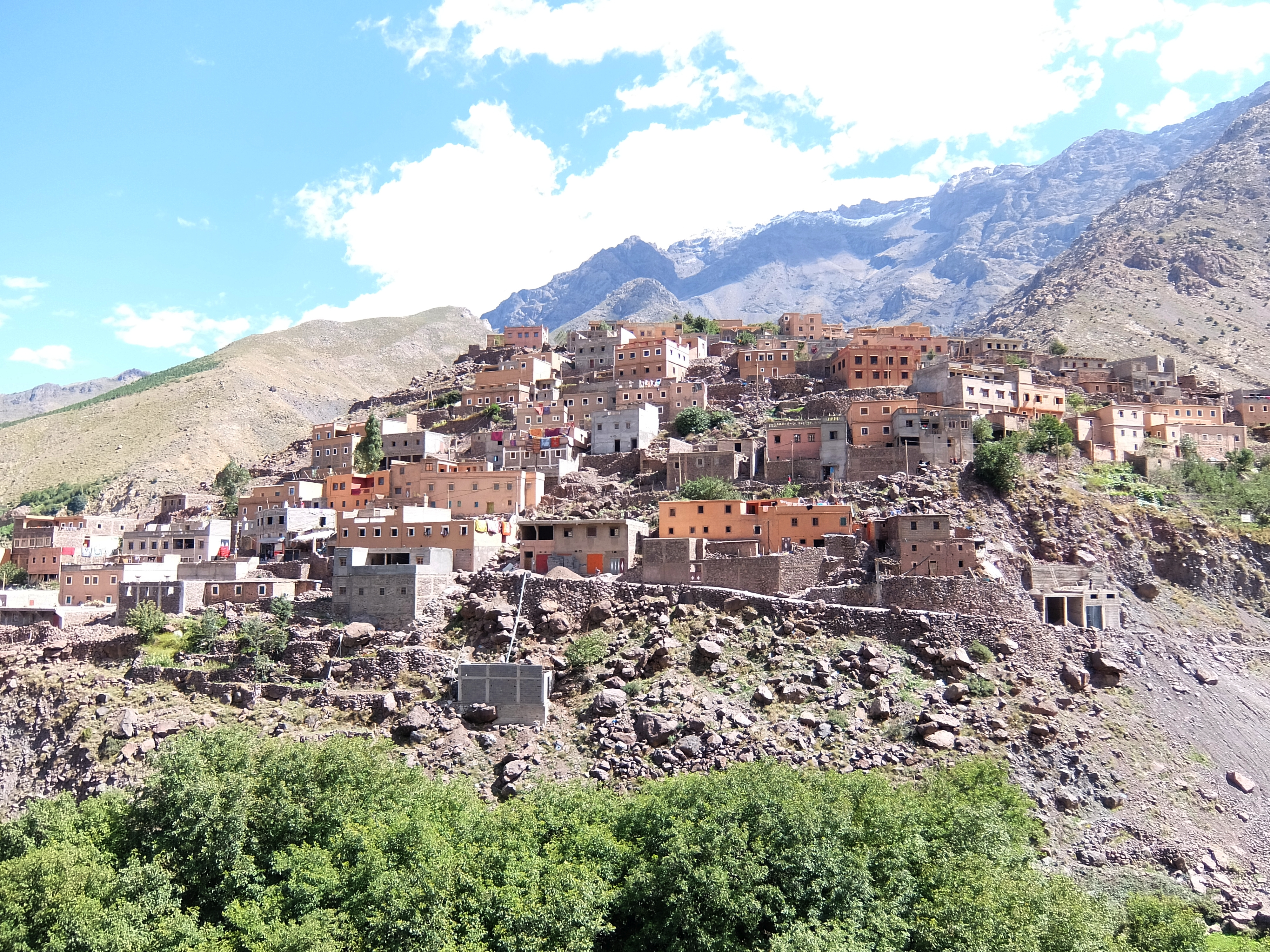 The village of Aroumd, near Imlil, in 2018.